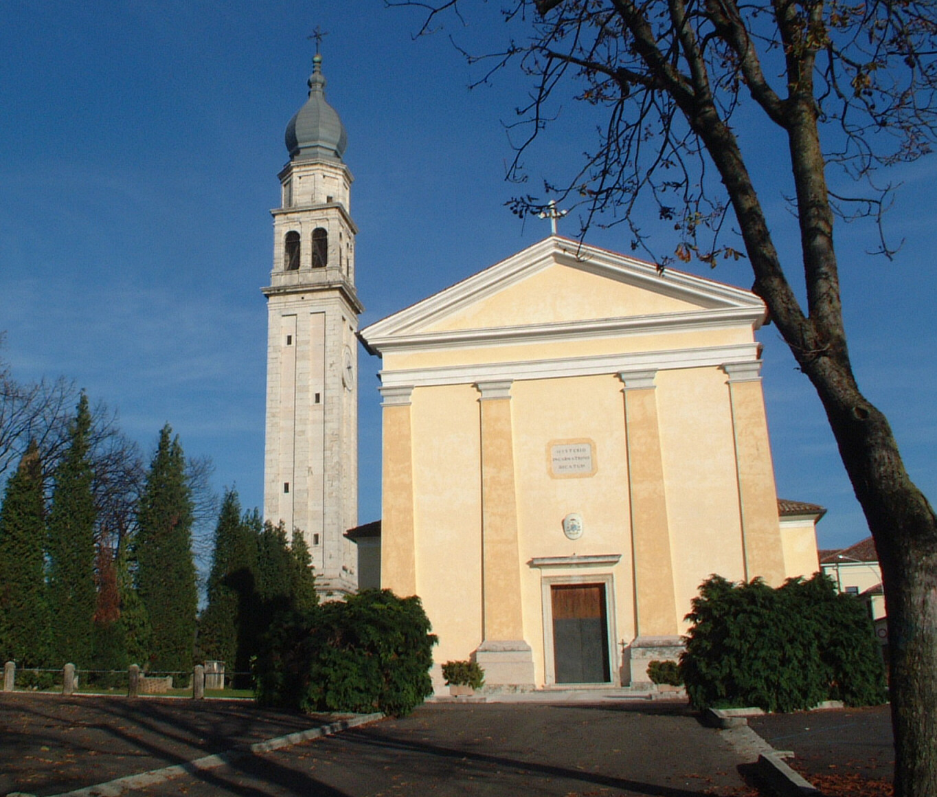 Paderno del Grappa, the church and the bell tower